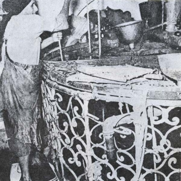 Zamzam well before present transformation